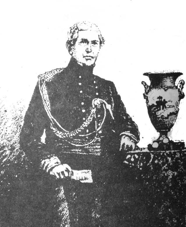 General William Cullen, Resident of Travancore